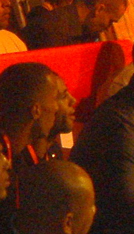 English boxer Yafai